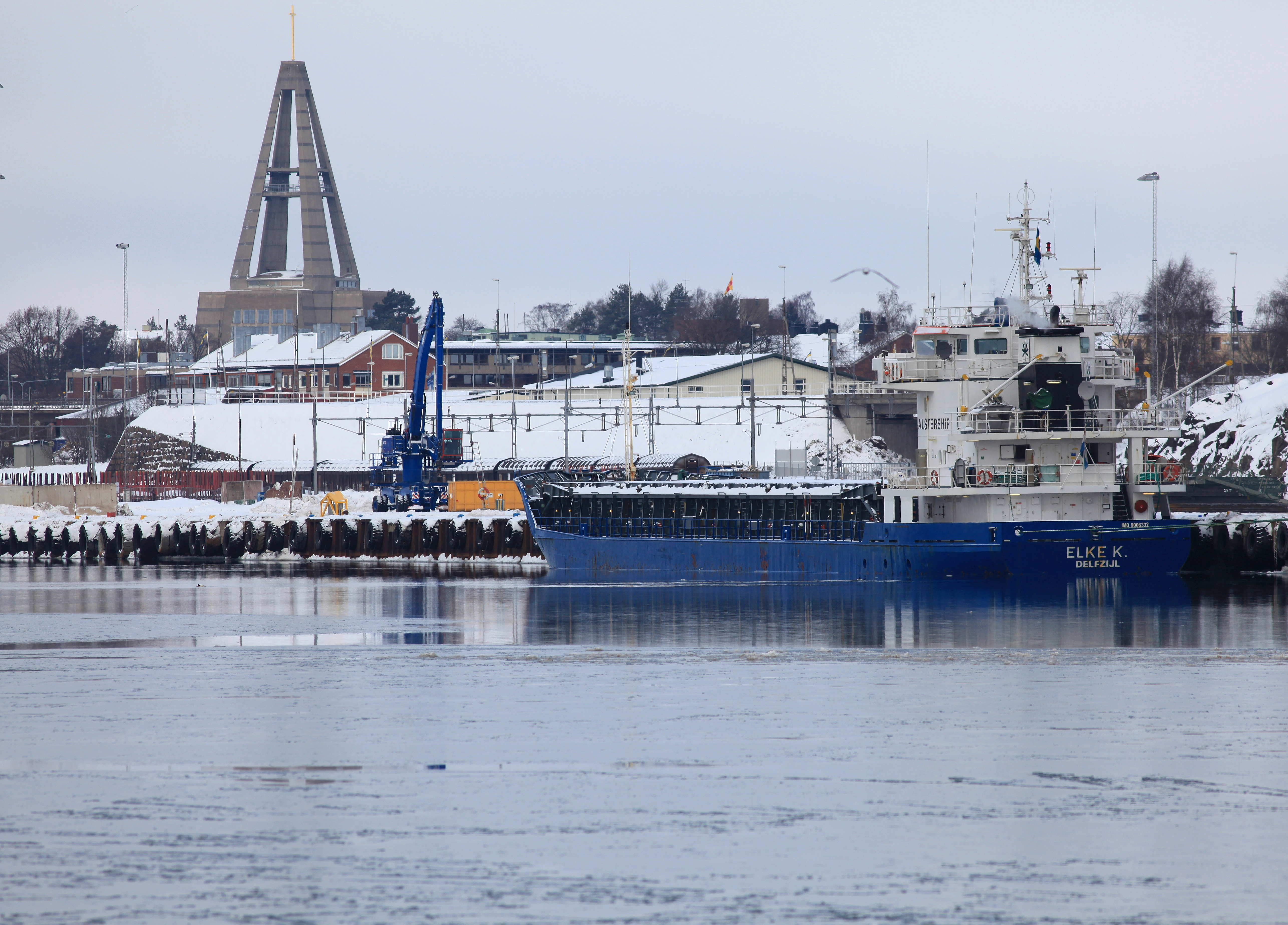 Type: Cargo Build year: 1993 Size:: 88 m X 13 m DWTt: 3712 t Callsign: PBES IMO: 9006332 MMSI: 246180000 Camera: Canon EOS 5D Mark II Exposure: 0.001 sec (1/800) Aperture: f/5.6 Focal Length: 300 mm ISO Speed: 200 Exposure Bias: +2/3 EV Lens Type: Canon EF 300mm f/4L